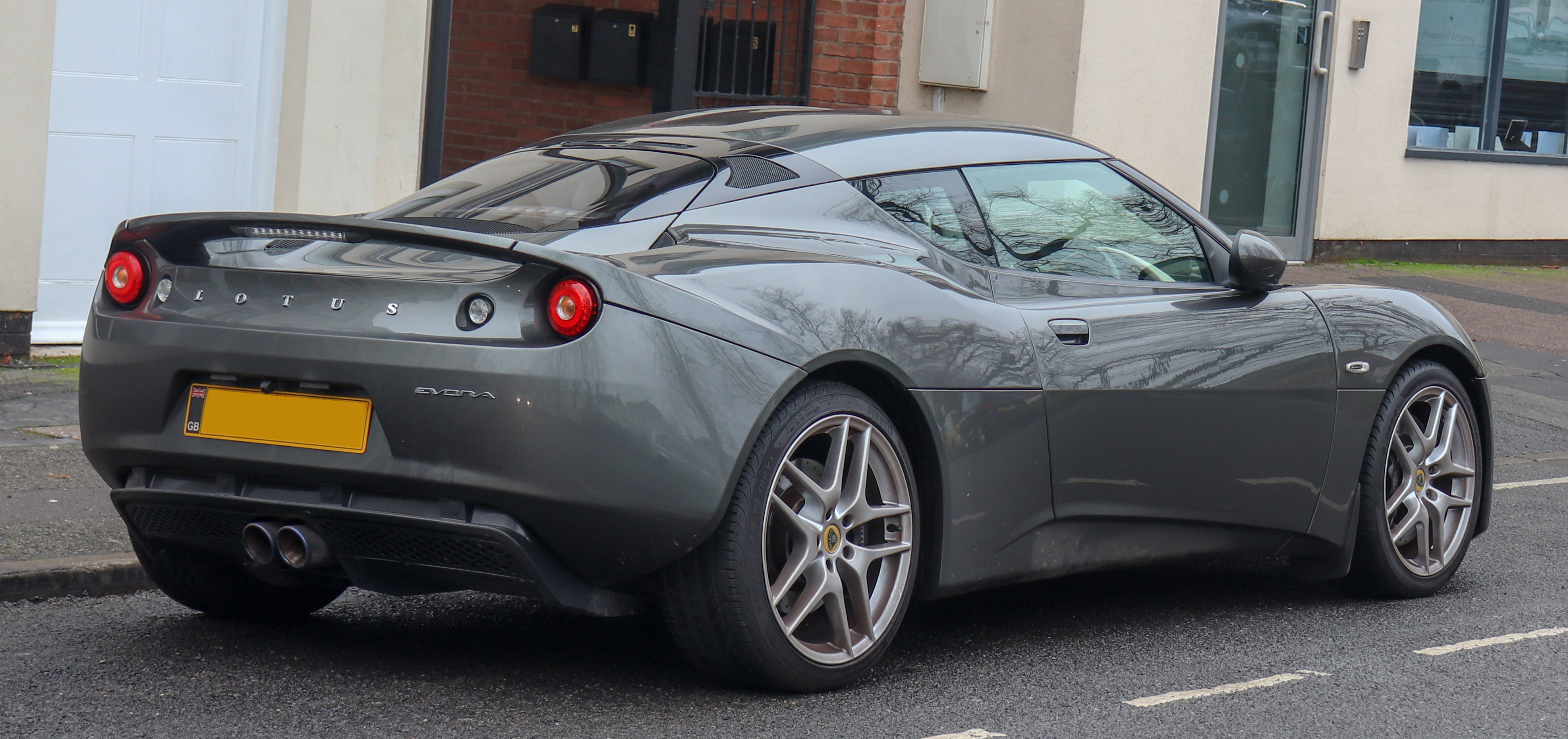 2011 Lotus Evora 4 V6 3.5 Rear Taken in Leamington Spa